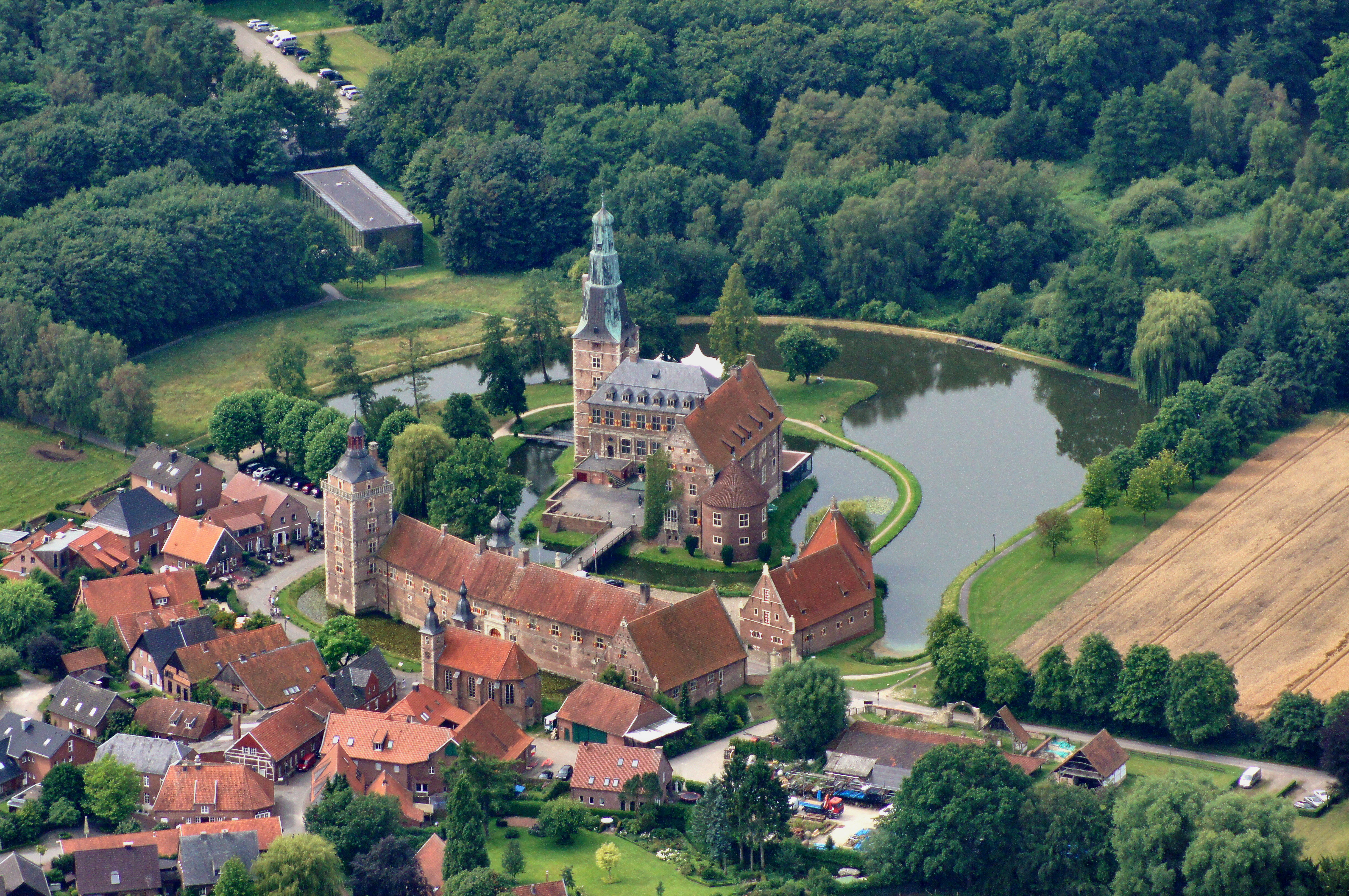 The castle of Raesfeld is situated in Raesfeld, district of Borken in North Rhine-Westphalia, Germany.